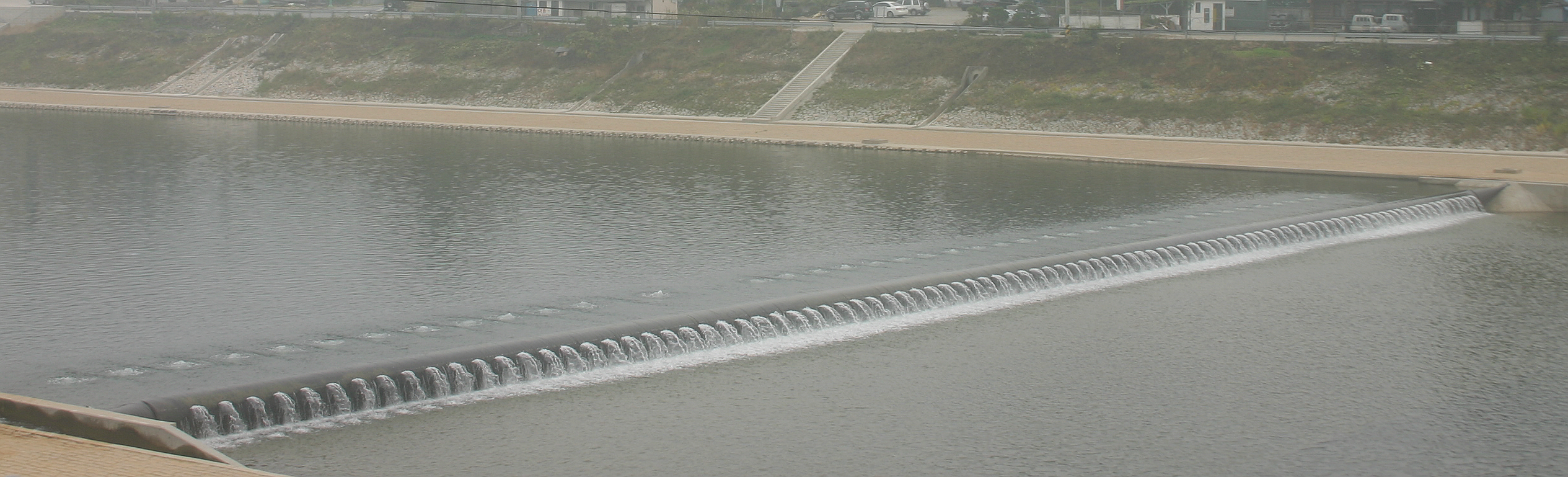 Inflated Rubber Dam at Hongcheon River in South Korea 150m (500ft) Length Rubber Dam without a Mid-structure